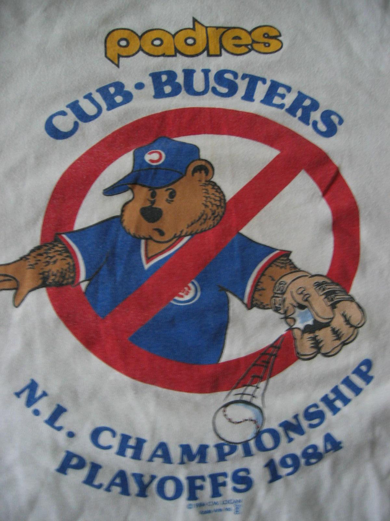 Cub Busters T-Shirt from 1984 San Diego Padres playoff series versus Chicago Cubs